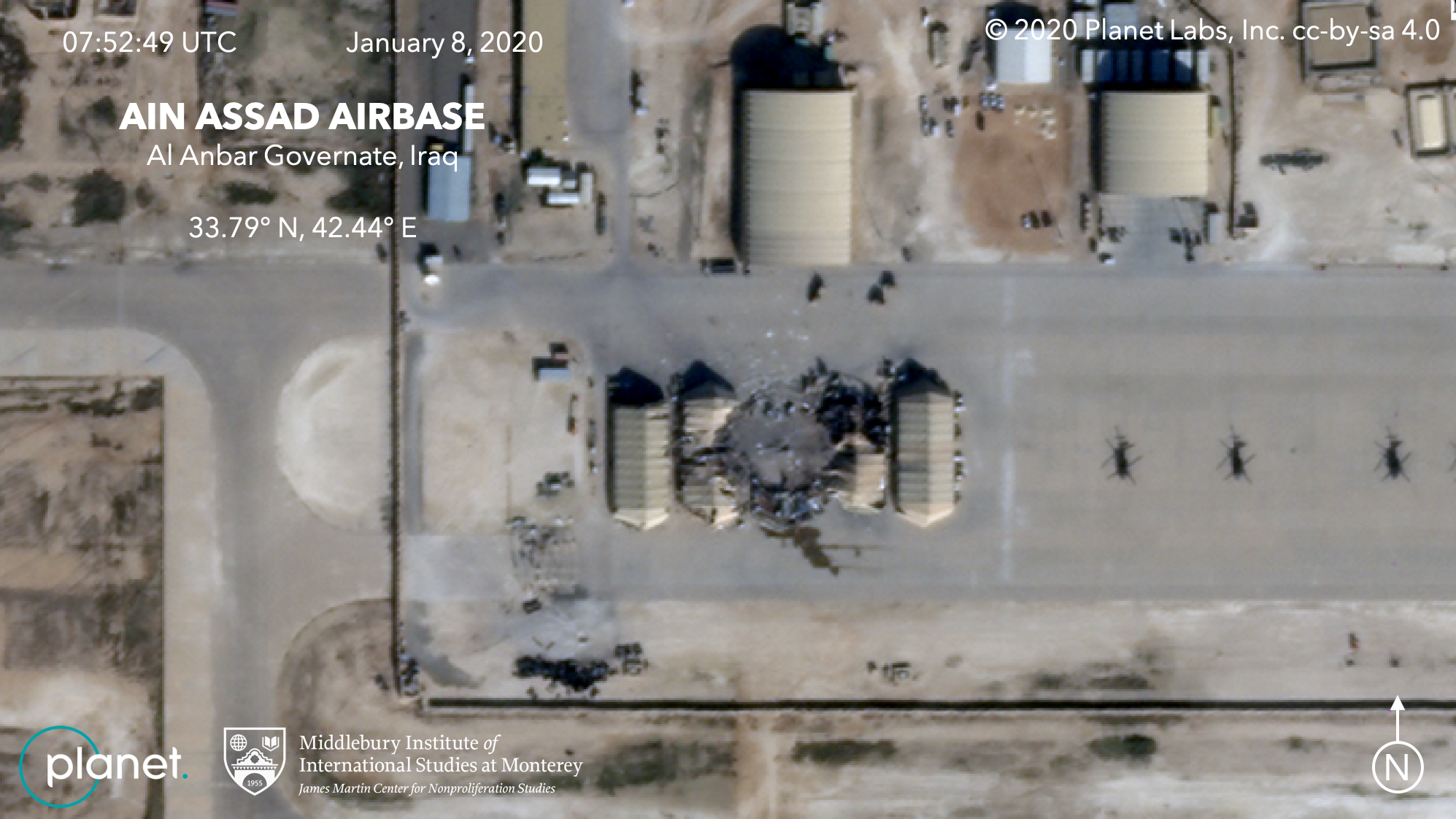 Detail from satellite photo from the commercial company Planet shows parts of damage at the Ain al-Assad air base in Iraq.